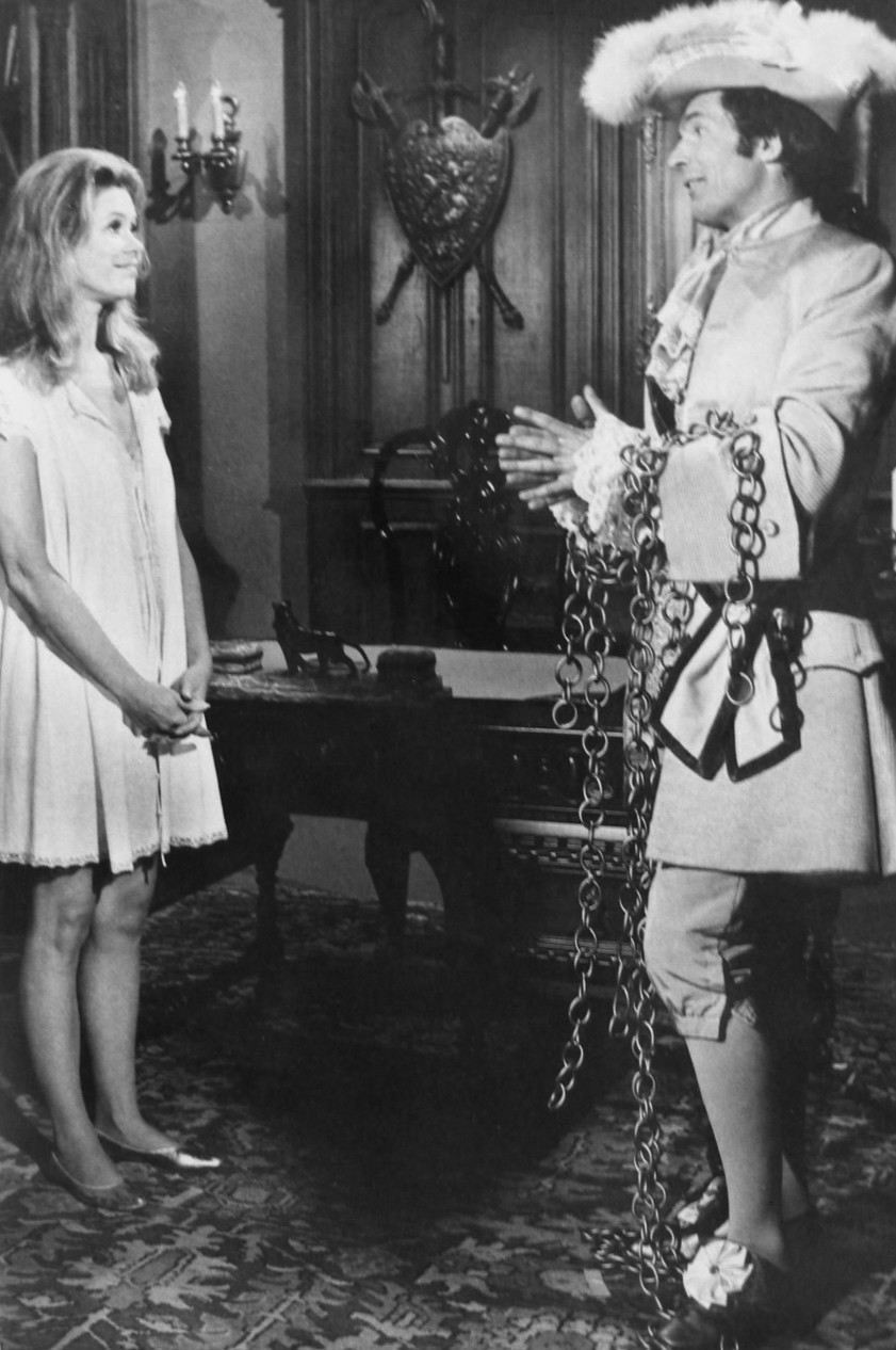 Photo of Elizabeth Montgomery and Patrick Horgan from the television program Bewitched. While visiting an English castle that has been turned into a hotel, Samantha meets a ghost who falls in love with her.